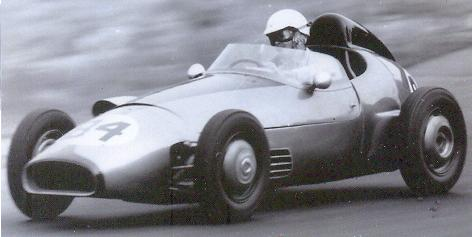 Bandini formula junior. Lime Rock 1960 picture by Bandini book